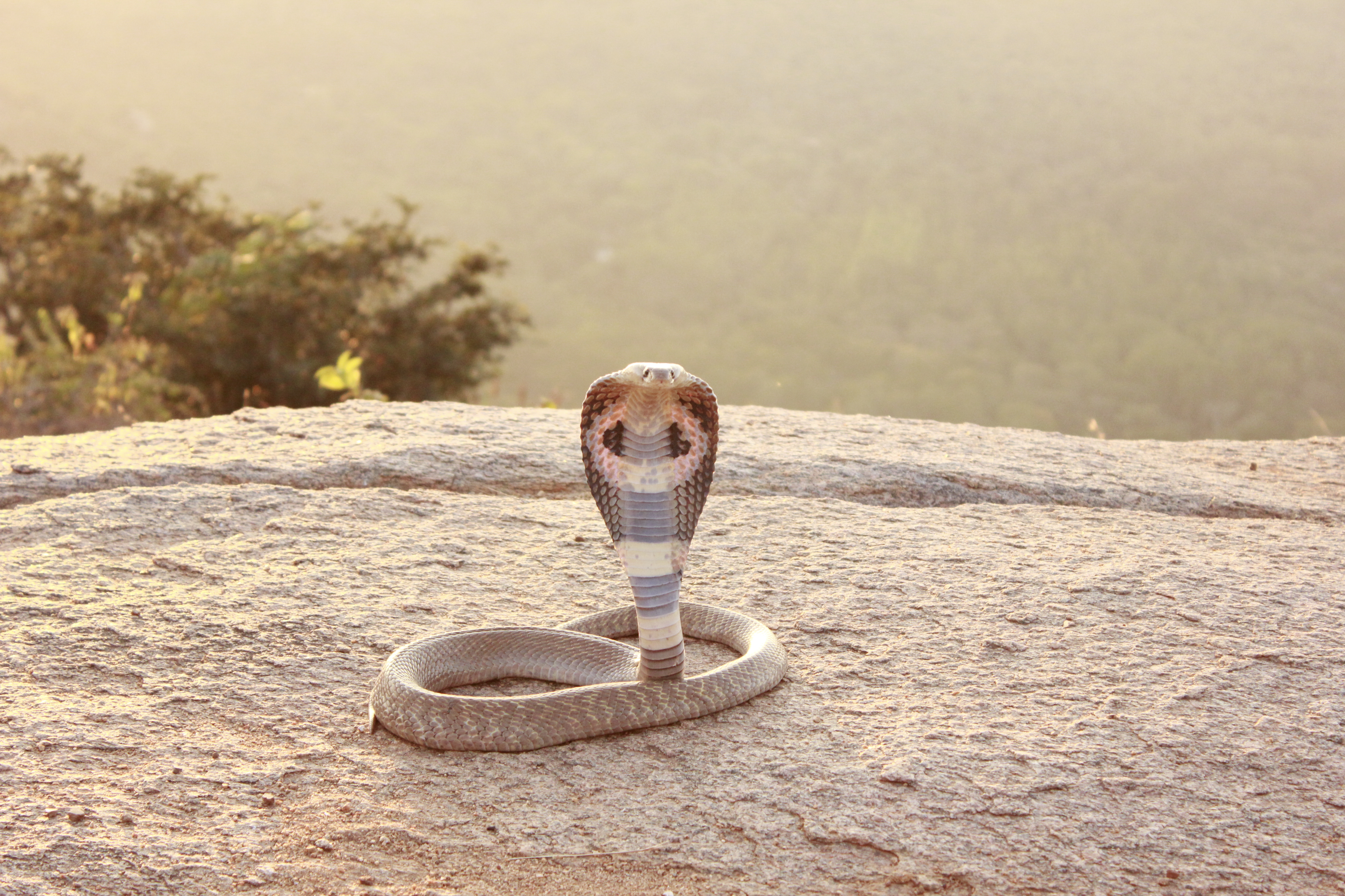 The Indian Cobra is one of the most dangerous snakes in all of Asia.